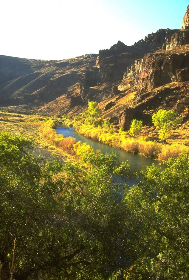 The Owyhee River, which flows from northern Nevada through southwestern Idaho, and through southeastern Oregon into the Snake River.